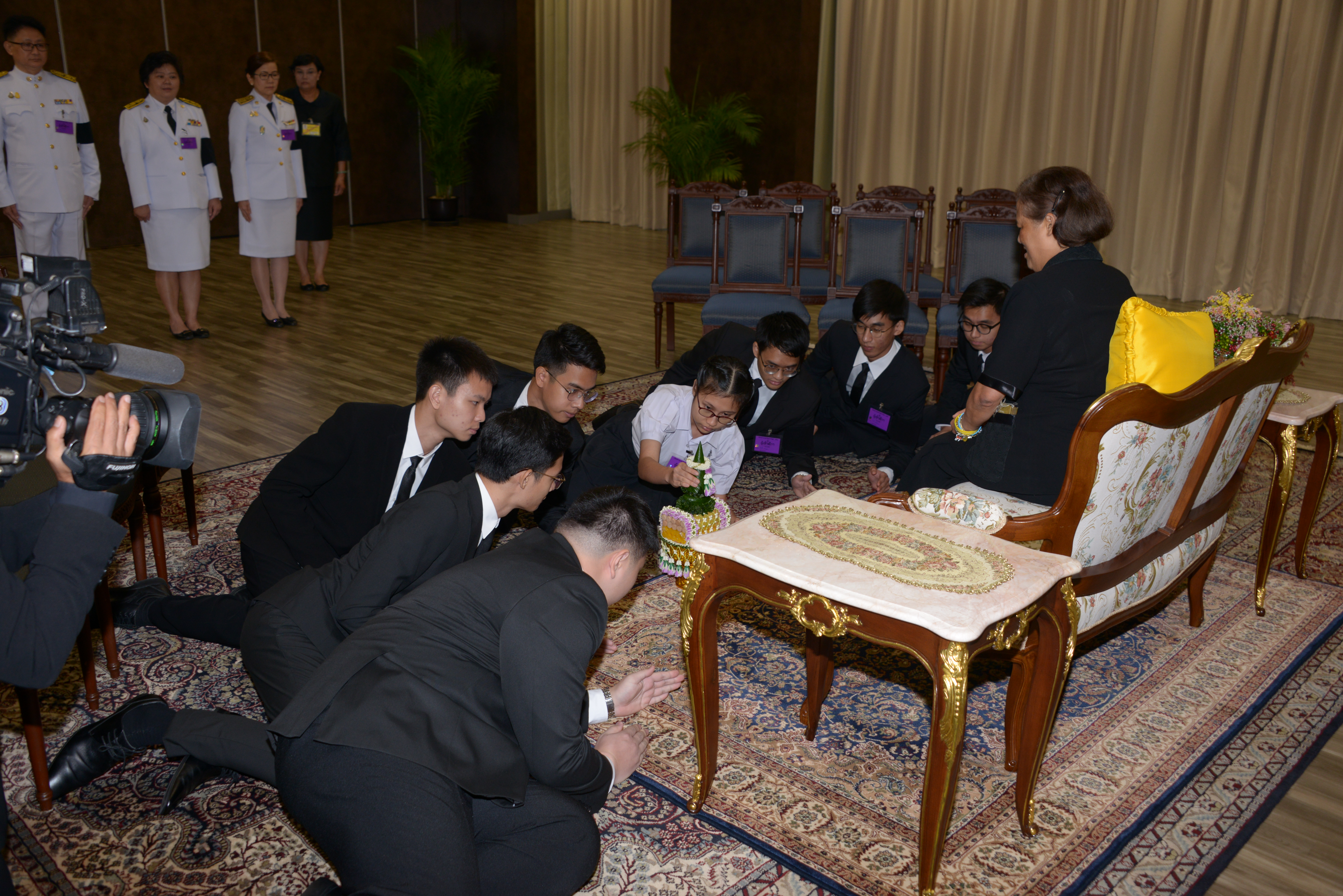 King's scholars in an audience with Her Royal Highness Princess Maha Chakri Sirindhorn